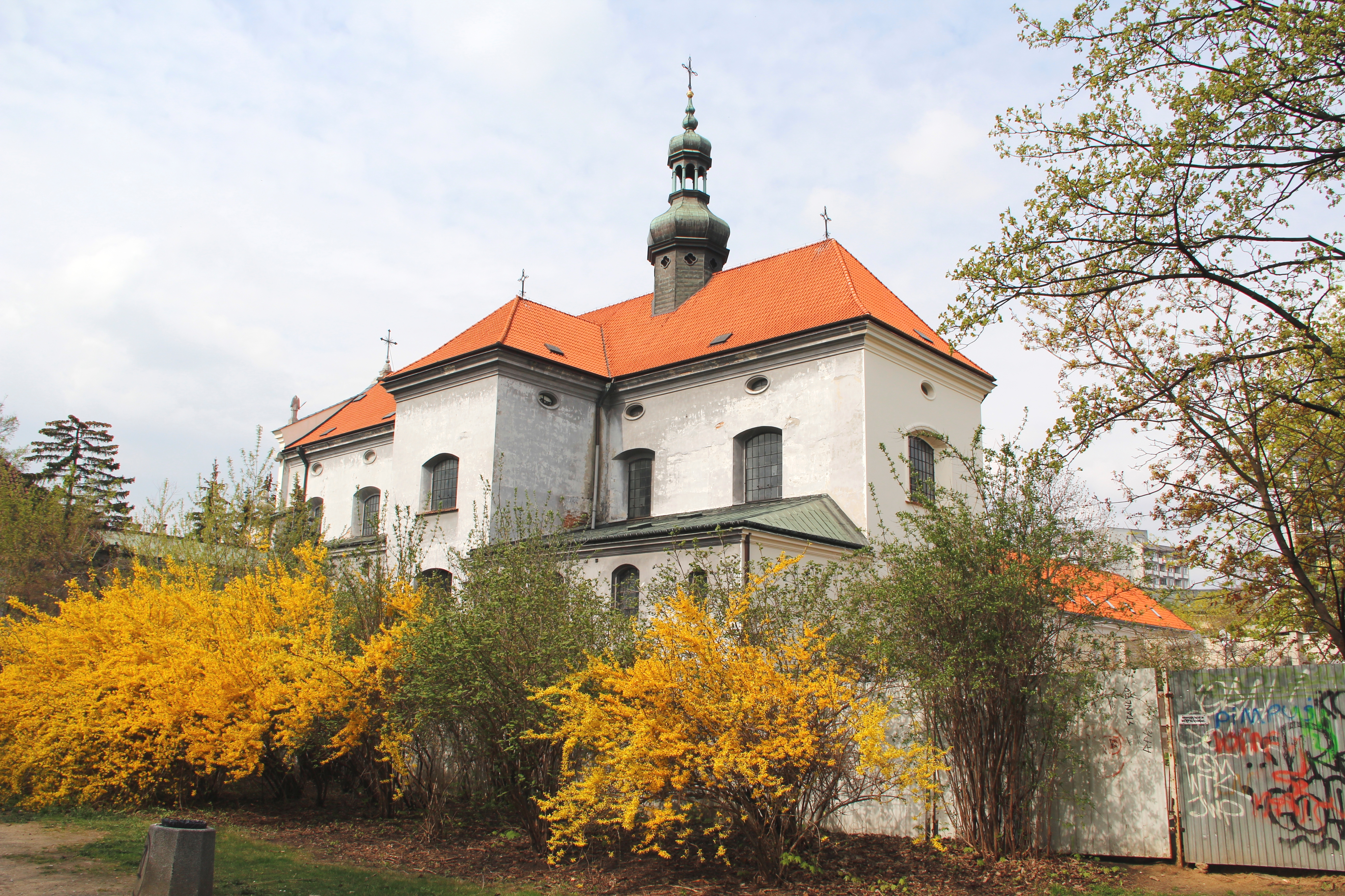 Saint Anthony of Padua church in Warsaw